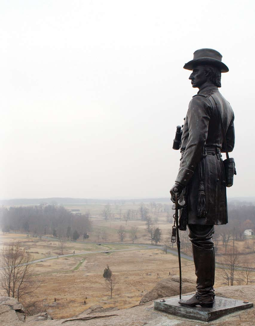 A statue of Union Brig. Gen. Gouverneur K. Warren surveying the terrain within Gettysburg National Military Park. He had earned the designation "Savior of Little Round Top." by his actions during the battle.